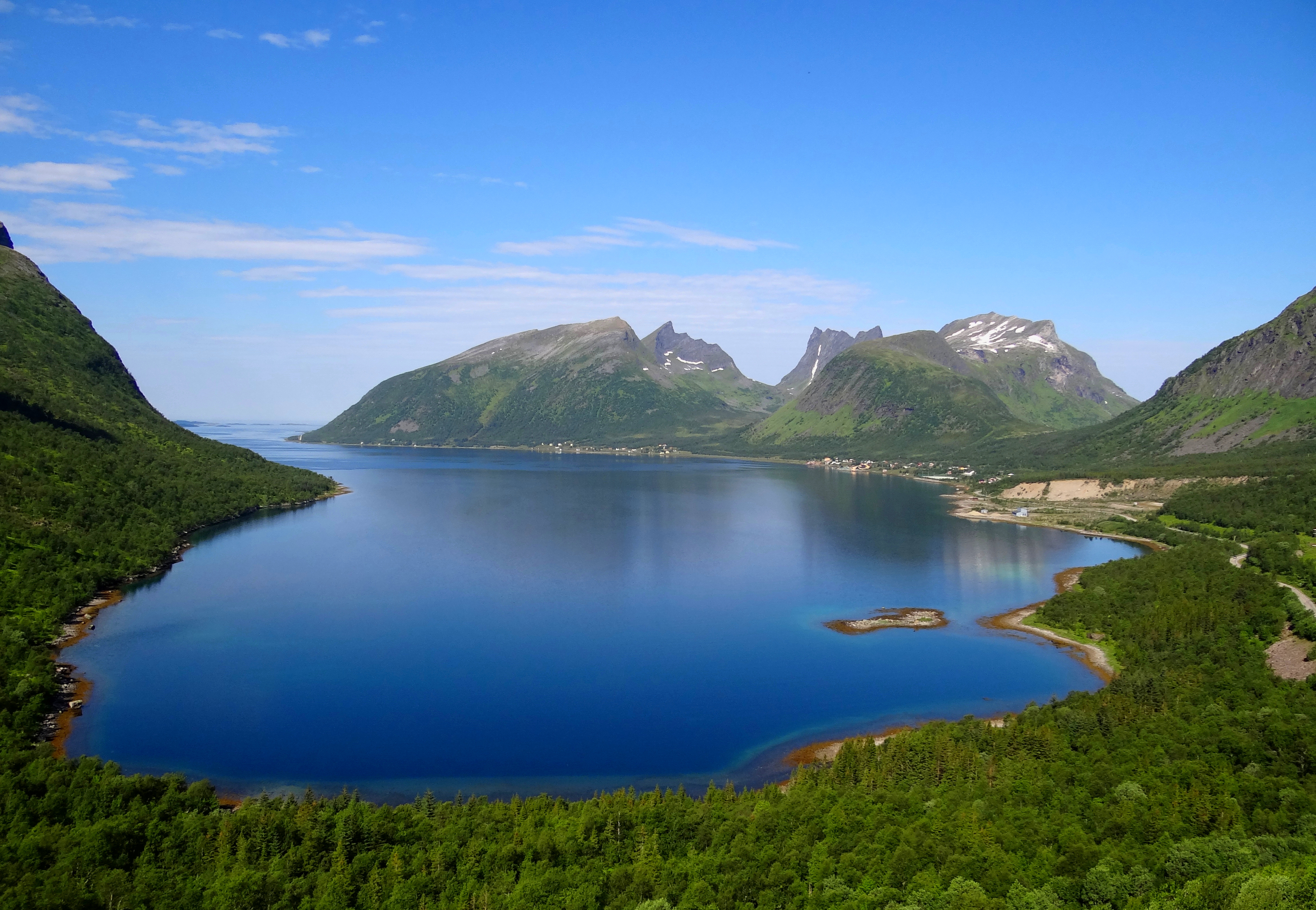 A view from a lookout platform at the end of Bergsbotnen, the innermost arm of Bergsfjorden, on Senja, Norway